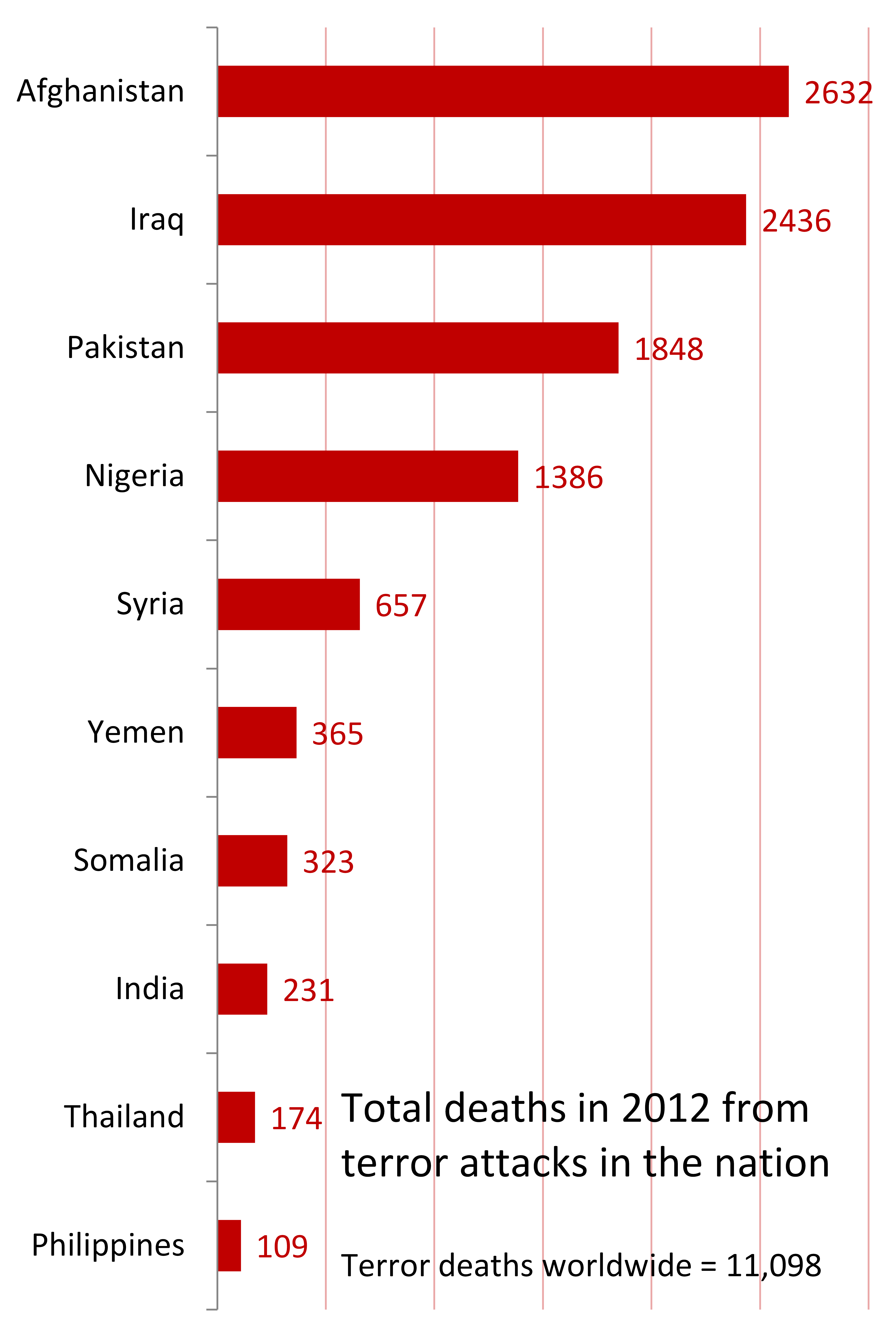 Terror attack fatalities in select countries and globally according to 2013 report by the Department of State, United States of America Notes: 1. The data is those killed. It does not include those wounded or kidnapped/taken hostage. 2. The data does not normalize for total population of the country. It does not reflect the intensity of terror attacks in the country or terror-related deaths per 100,000 people. 3. The Syria data is qualified as a minimum estimate. See source for more details. Source: Annex of Statistical Information, Country Reports on Terrorism 2012, May 2013, pages 3-4 Publisher: National Consortium for the Study of Terrorism and Responses to Terrorism, A Department of Homeland Security Science and, Technology Center of Excellence, University of Maryland Web version